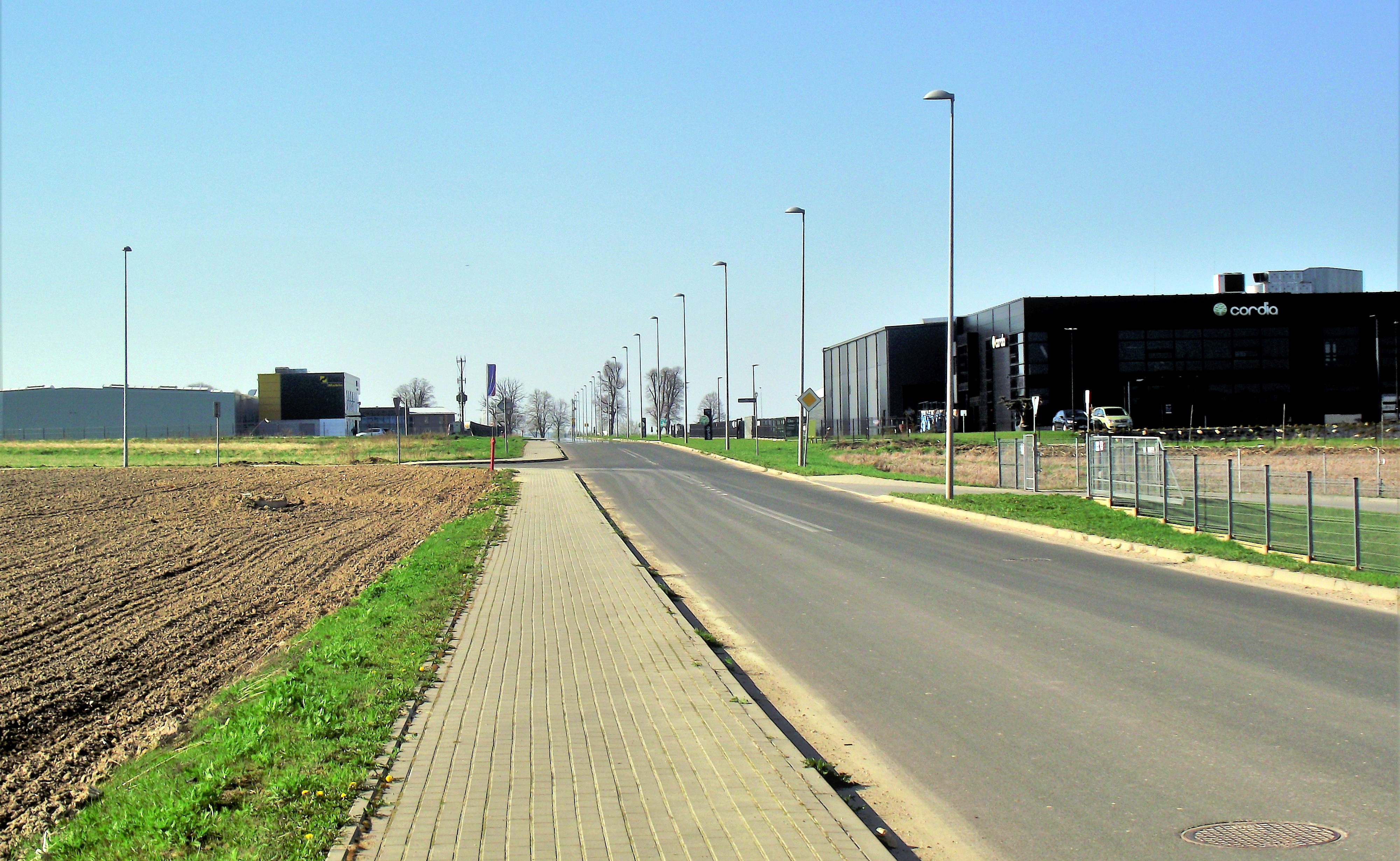 The newly created Western Małopolska Business Activity Zone in Zator – Grabskiego Street.